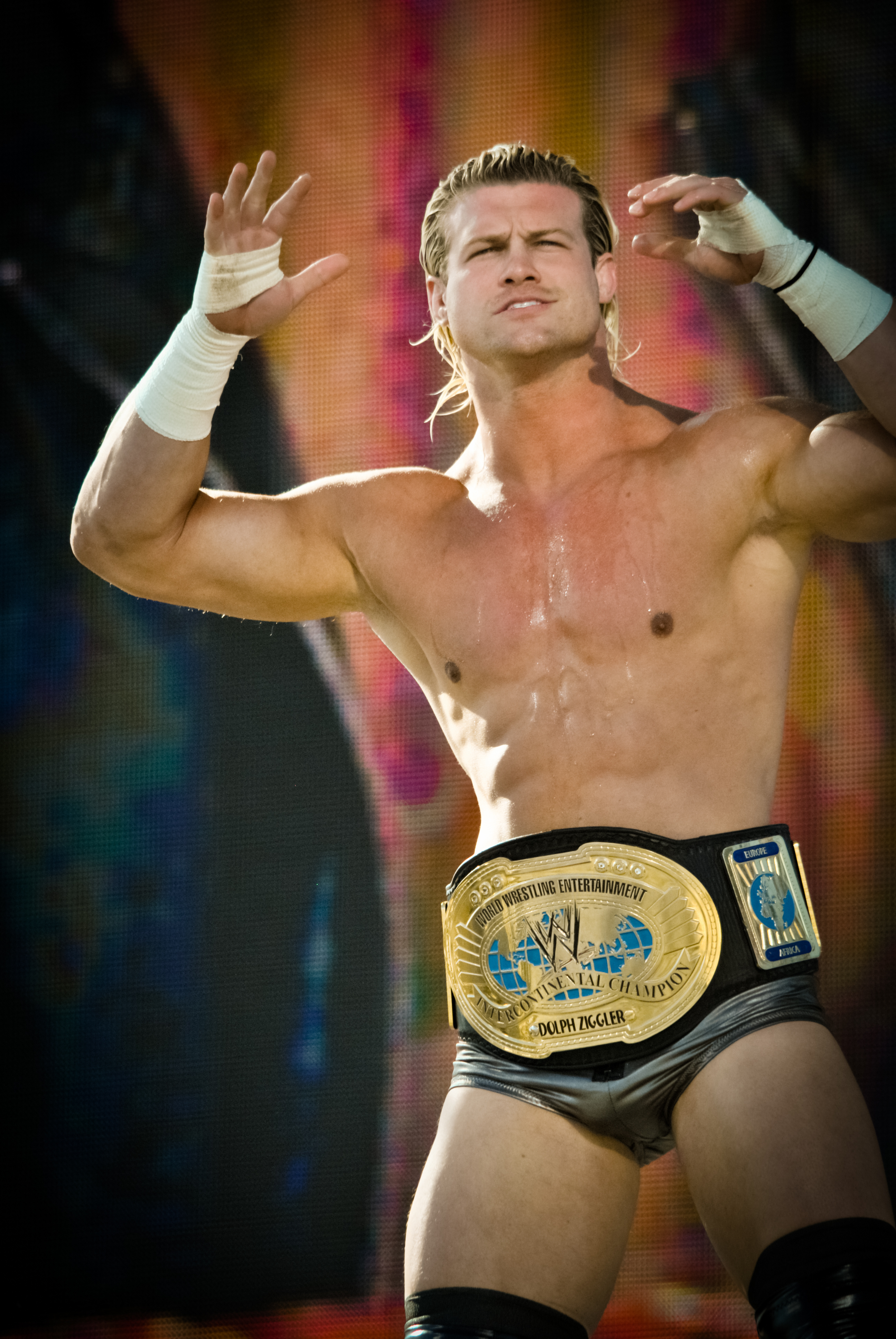 Dolph Ziggler as the WWE Intercontinental Champion at WWE's 2010 Tribute to the Troops event in Fort Hood, Texas.